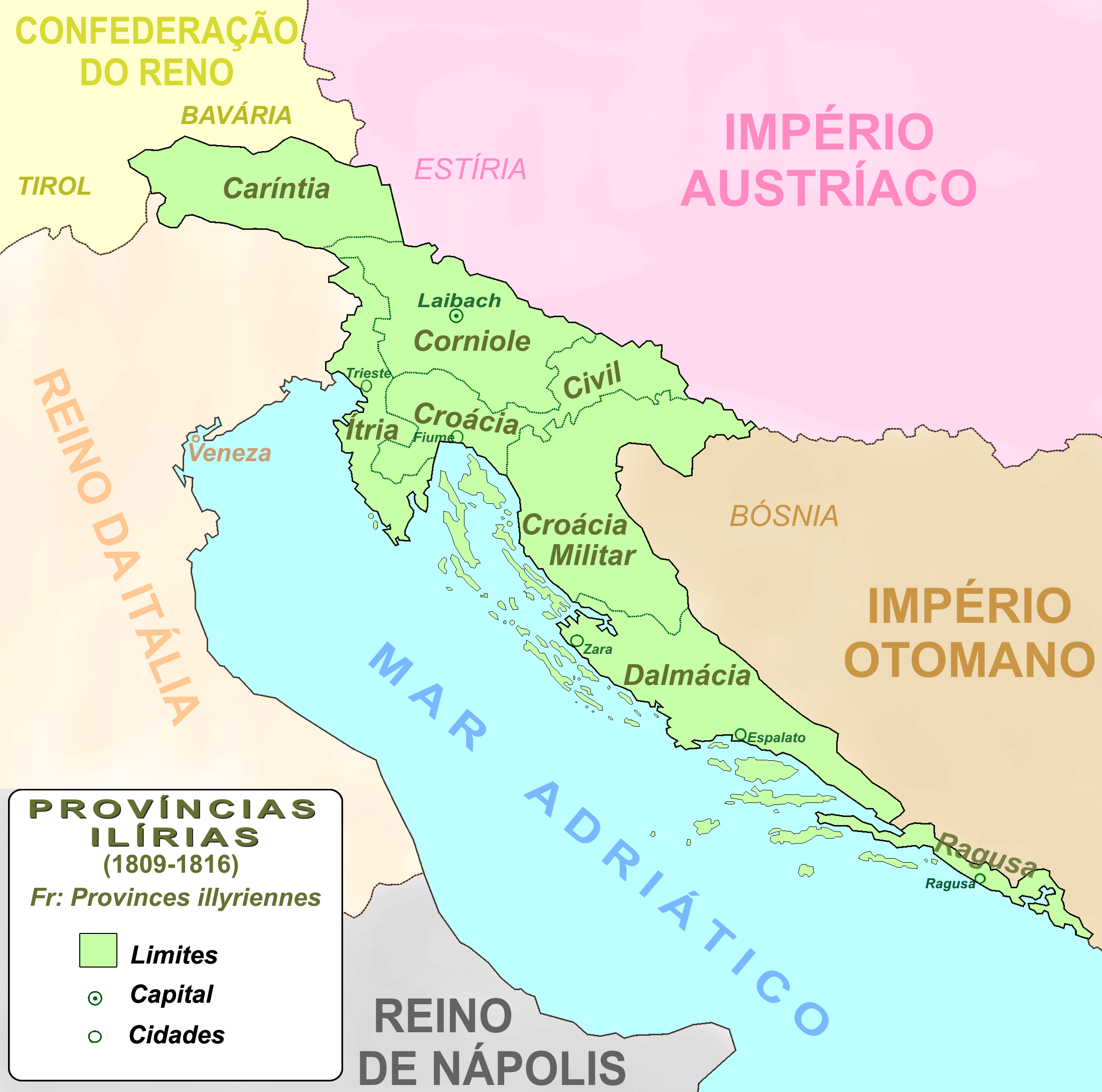 Illyrian Provinces (1809 - 1816) Portuguese version